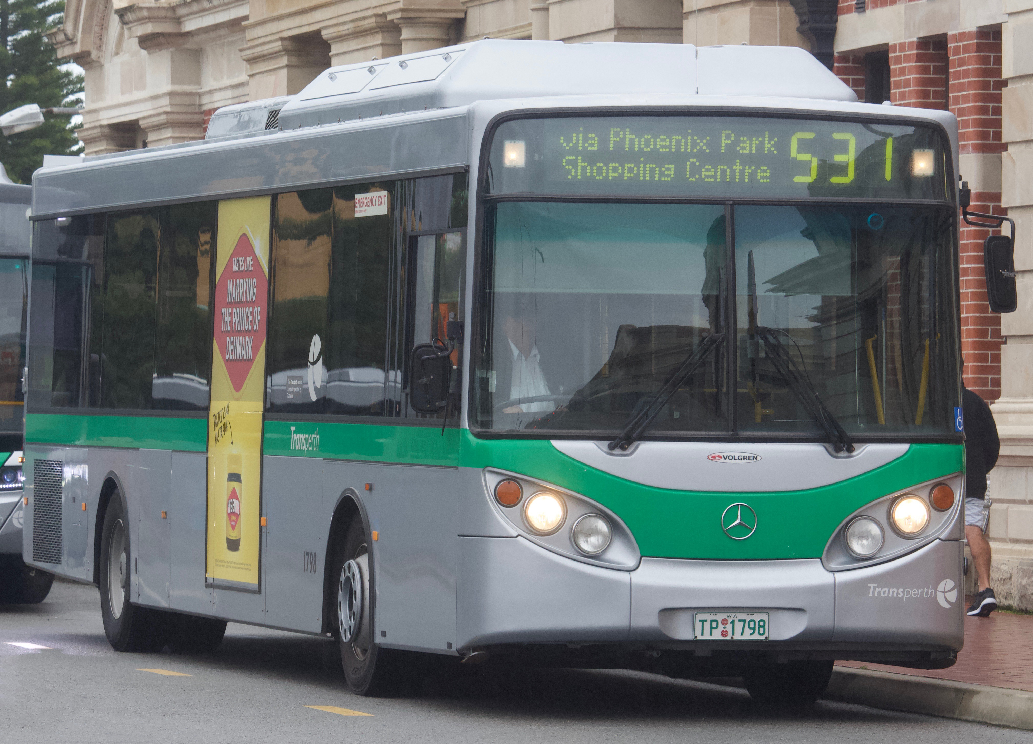 Transperth Volgren CR225L bodied Mercedes-Benz O405NH CNG operating under Transdev doing a route 531.